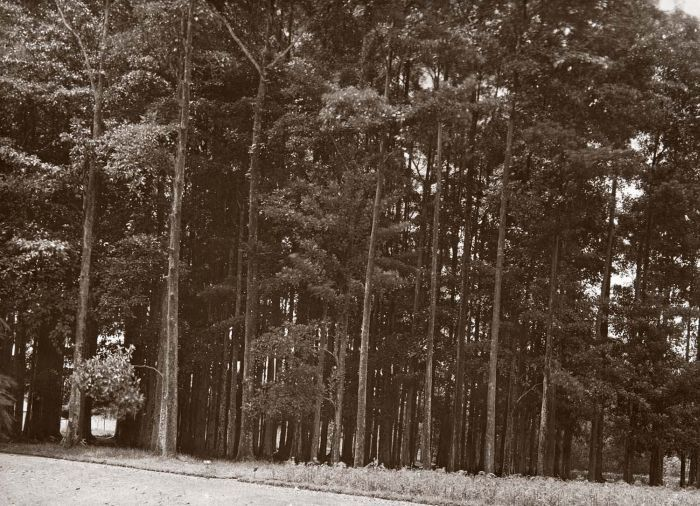 Gutta-percha, Buitenzorg